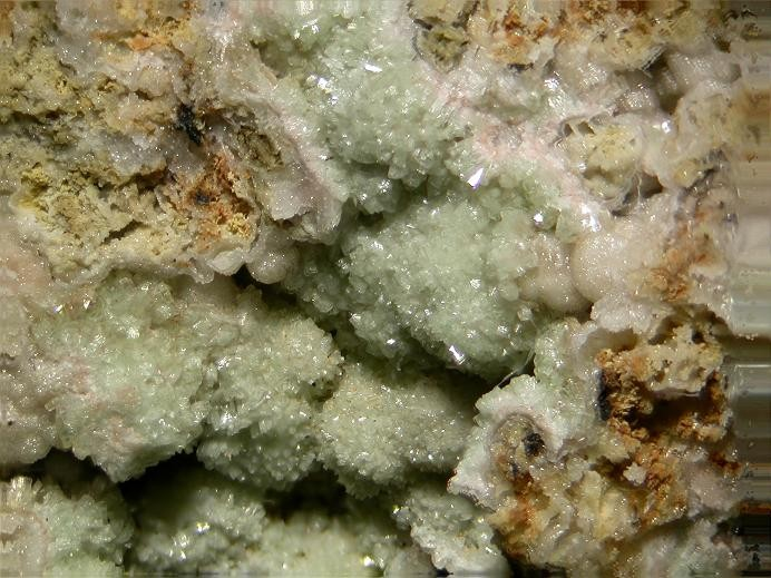 Talmessite (Var.: Nickeloan Talmessite) Locality: Aït Ahmane, Bou Azzer District, Tazenakht, Ouarzazate Province, Souss-Massa-Draâ Region, Morocco (Locality at ) Light green xls of Nickeloan Talmessite. Field of view: 5 mm. Depth of field is achieved with CombineZM. Collection and photo; Leon Hupperichs.